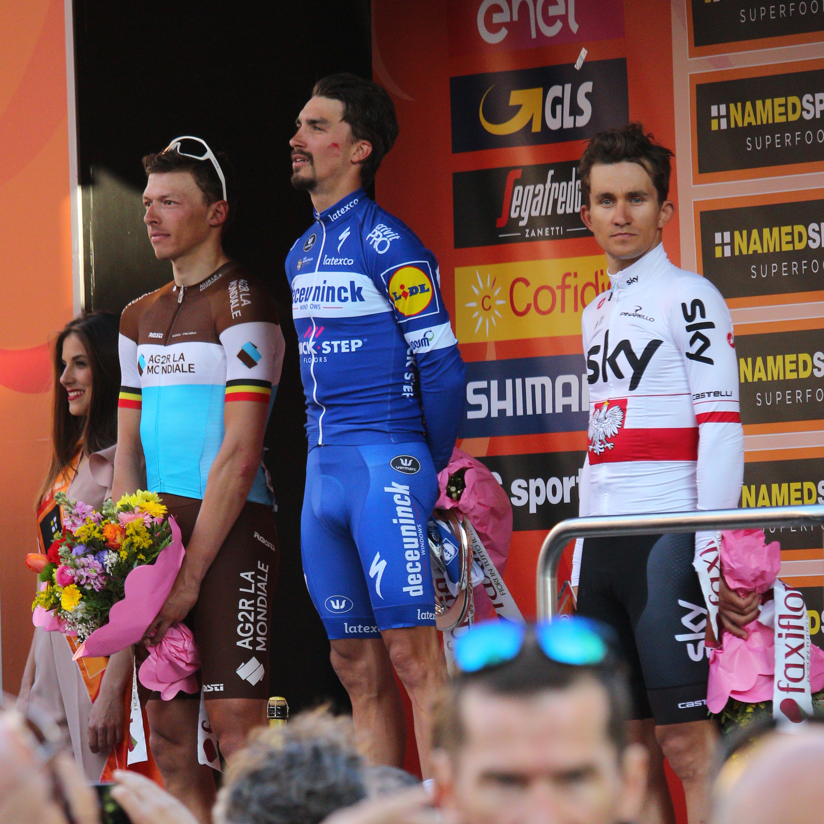 L-to-R: Oliver Naesen, Julian Alaphilippe and Michał Kwiatkowski in Sanremo